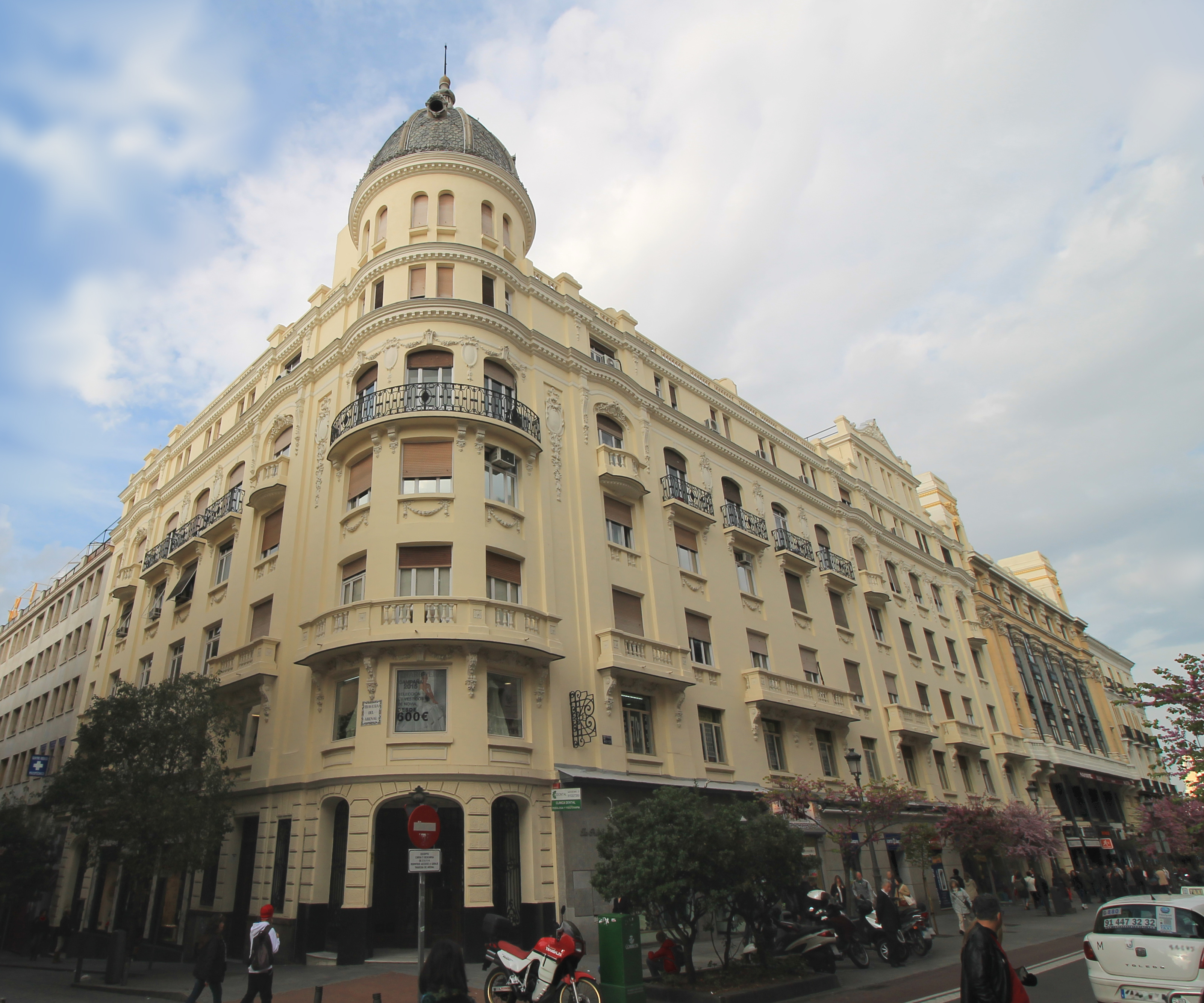 Housing building at 6th Calle Mayor (street) in Madrid (Spain).